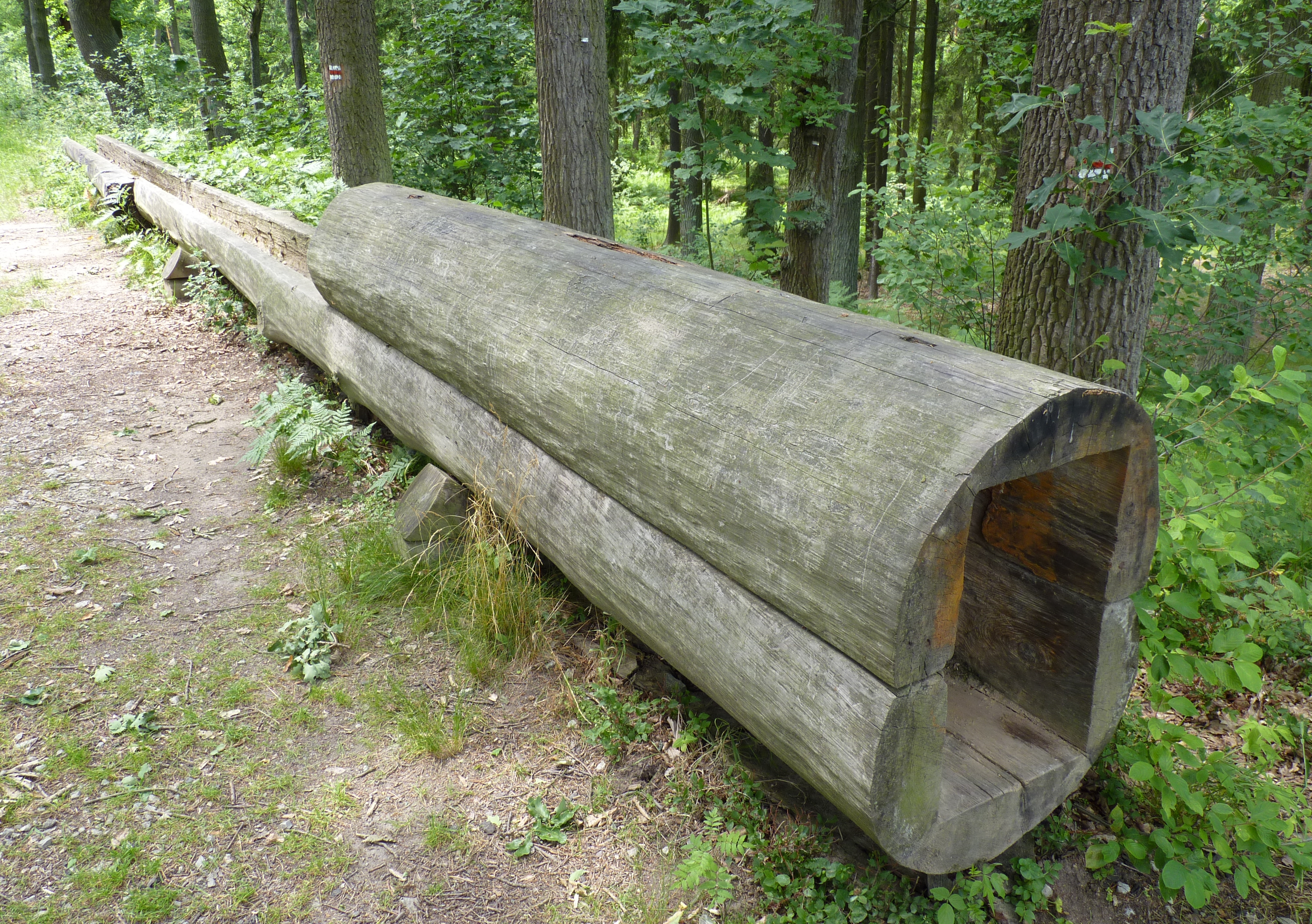 Rožmberk. Jindřichův Hradec District, South Bohemian Region, Czech Republic